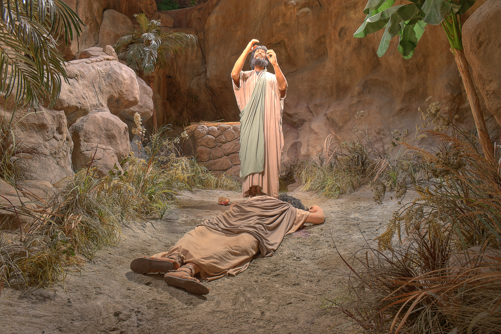 exhibit of Cain killing Abel